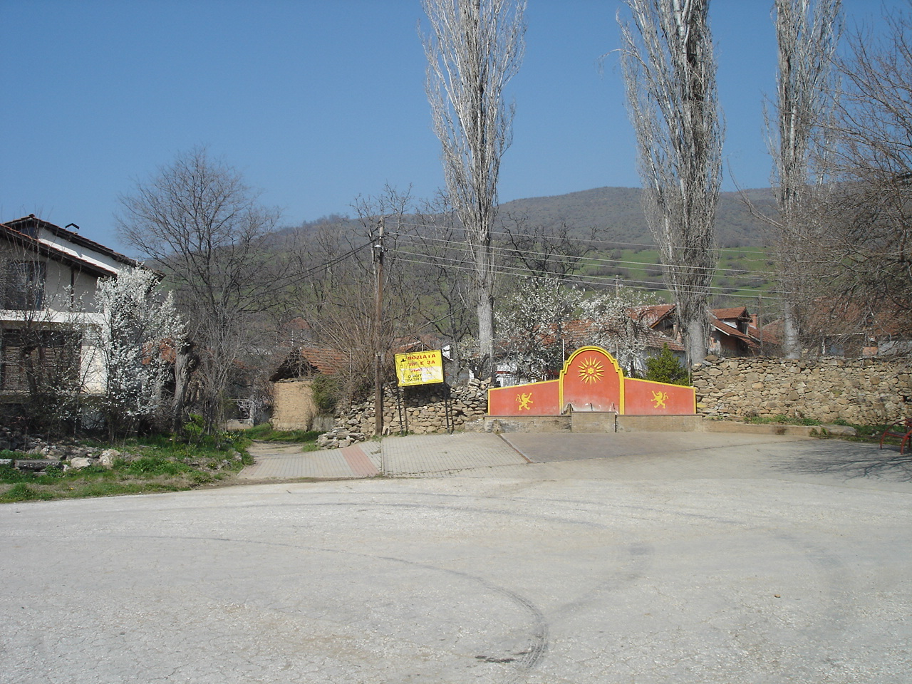 village of Brnjarci, near Skopje, Macedonia